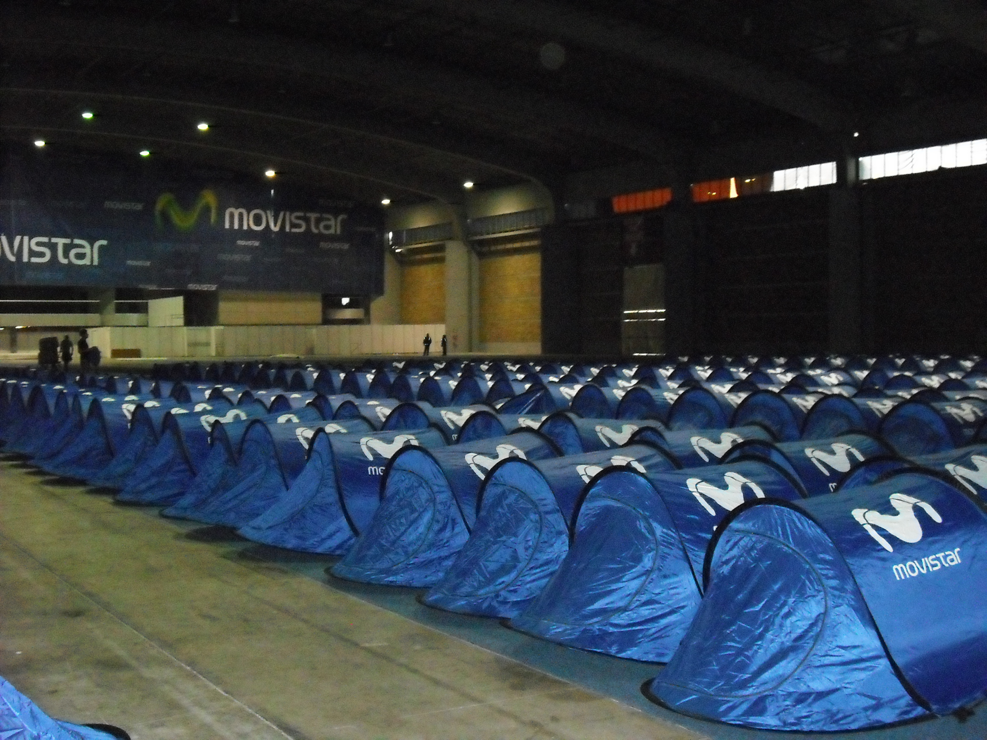 Camping at Campus Party México 2010 (CPMX2)